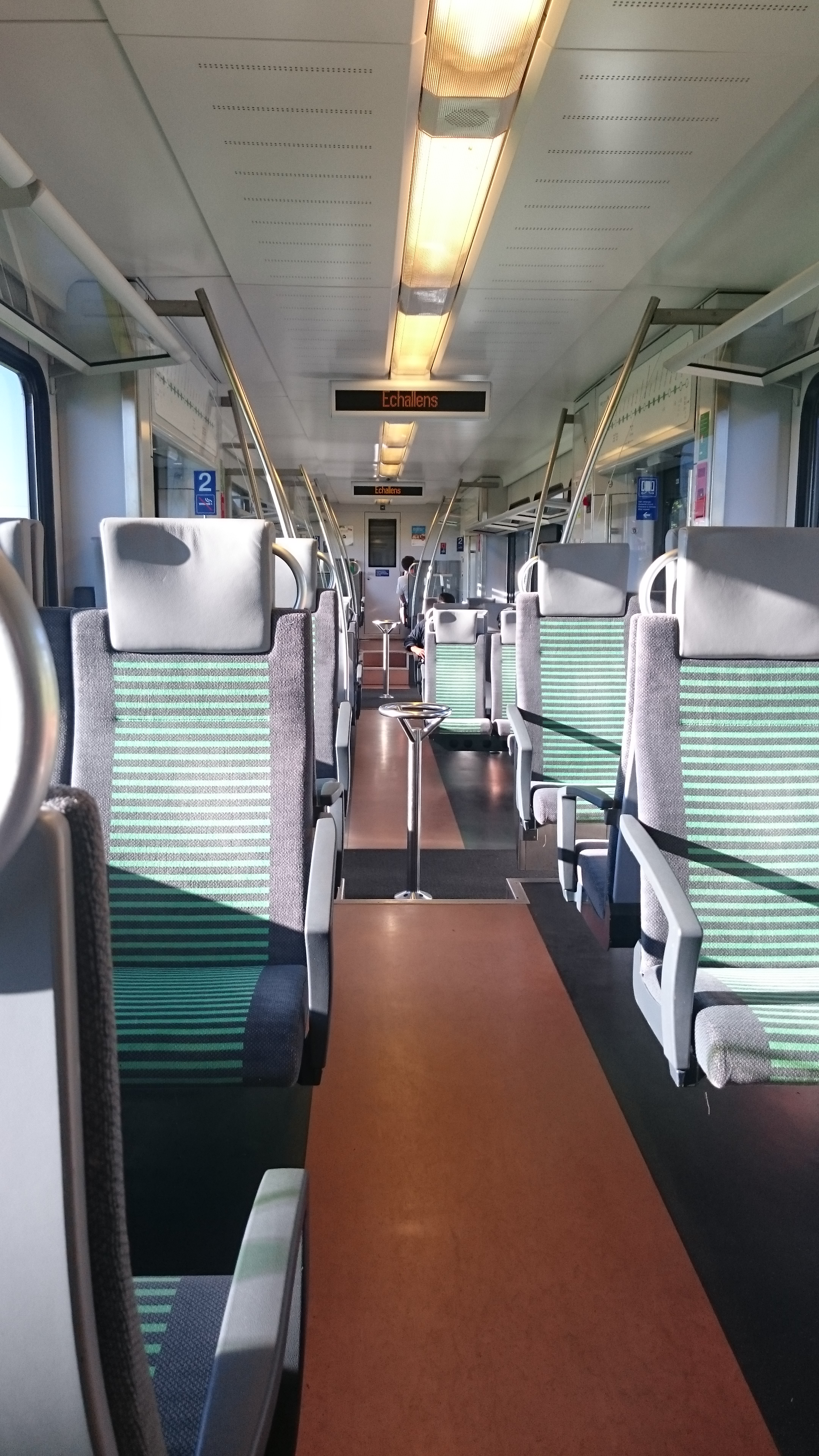 Inside view of the self-propelled unit LEB RBe 4/8 44.